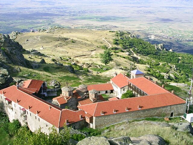 Treskavec monastery near Prilep, Macedonia